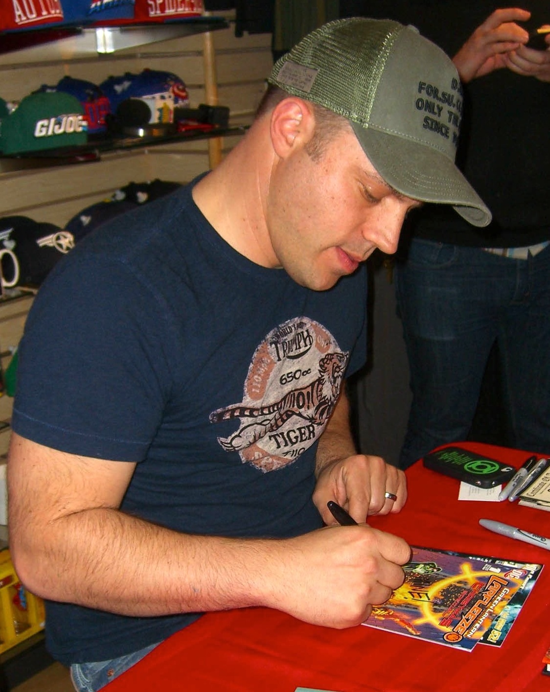 Comic book writer Geoff Johns at a May 11, 2012 signing at Midtown Comics Downtown in Lower Manhattan for Justice League Vol. 1: Origin, the hardcover collection of the first six-issue story arc of Justice League volume 2, the monthly series whose debut in September 2011 initiated the company-wide relaunch of all of DC Comics' superhero titles known as The New 52. In the photo, Johns is signing a copy of Green Lantern: Larfleeze Christmas Special, another book he wrote. This photo was created by Luigi Novi. It is not in the public domain, and use of this file outside of the licensing terms is a copyright violation.